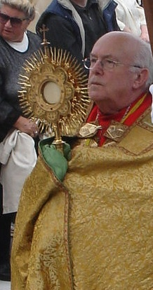 Godfried Danneels